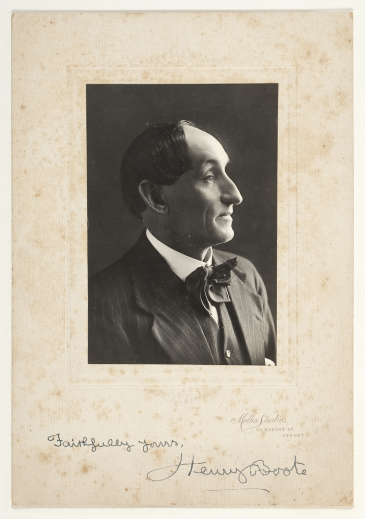 Signed photograph of Henry Boote, Australian labor journalist, poet and writer, c.1920. Text reads: Melba Studios, 65 Market St., Sydney. Signature reads: Faithfully yours, Henry Boote